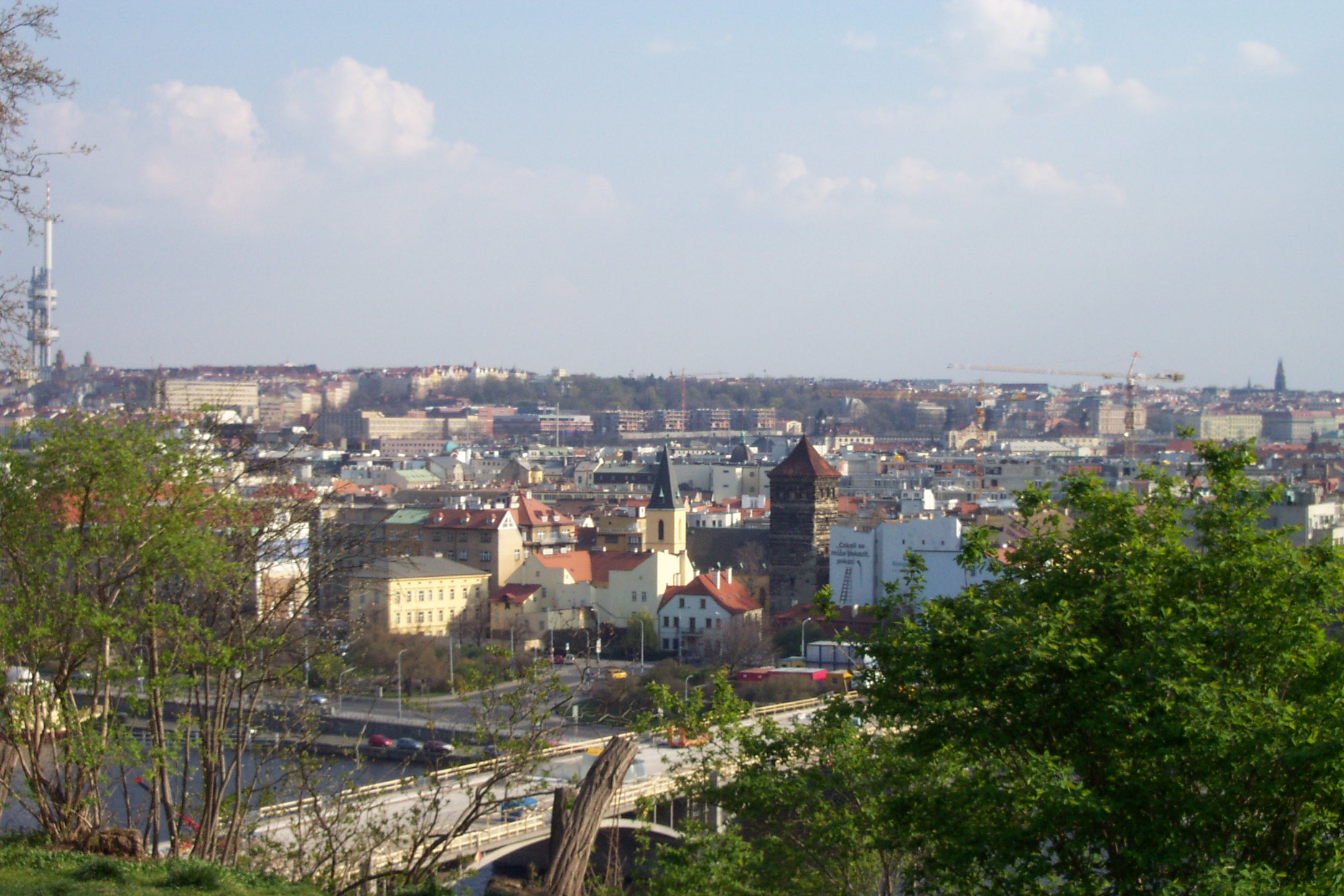 View of Nové město from Letná in Prague